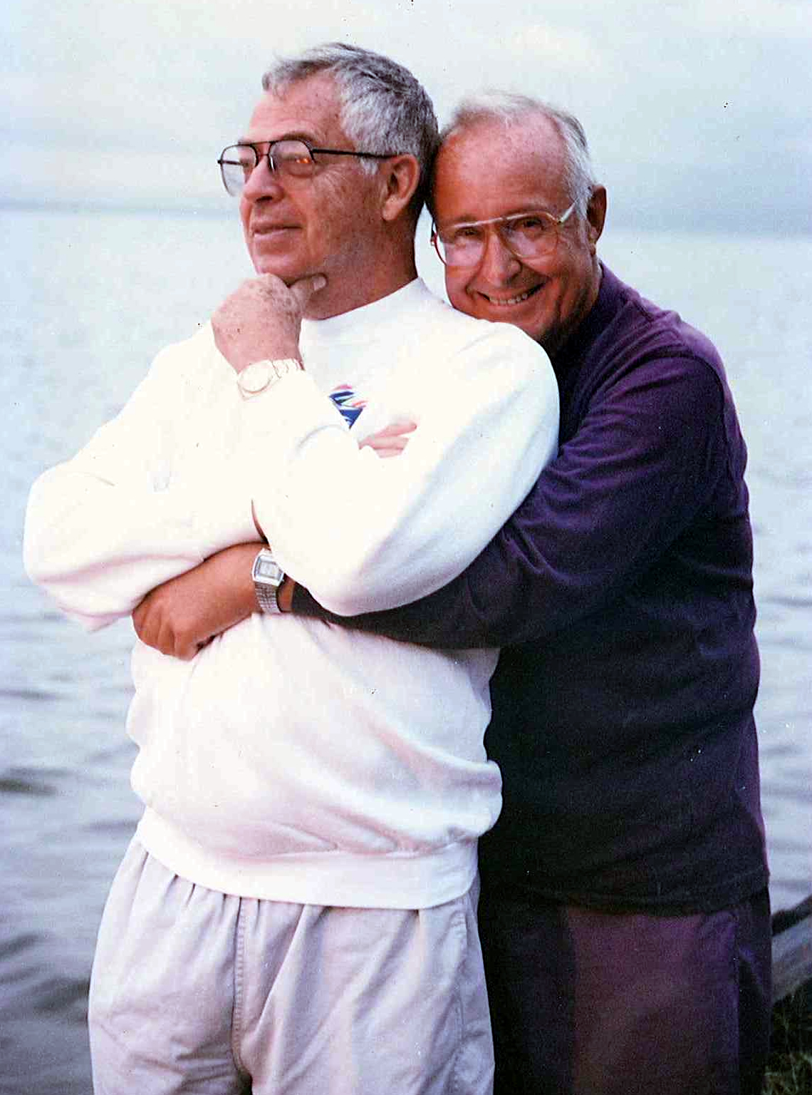 Dr. Henry D. Messer (right) and partner Carl House (left) on the beach. Photo and rights donated to Equality Michigan by the Henry D. Messer estate in 2014.